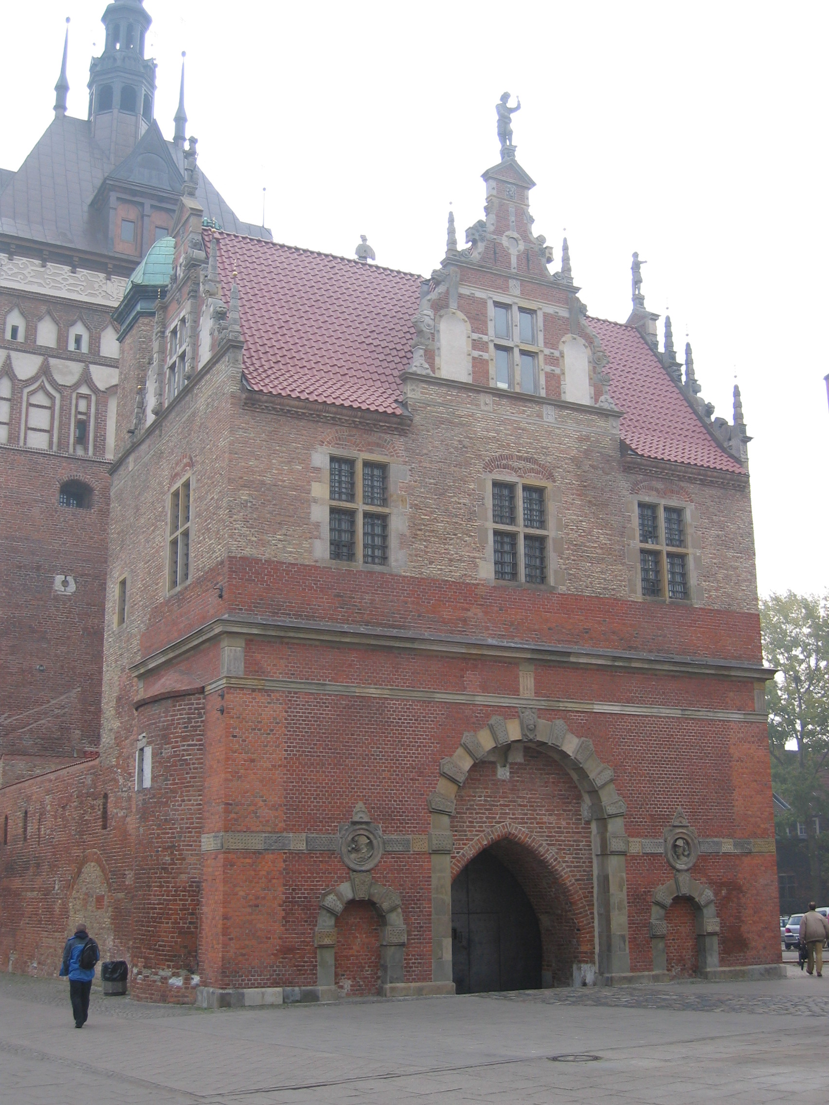 Gdansk, Poland, House of tortures, 4 November 2005.